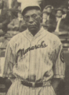 Lemuel Hawkins at the 1924 Colored World Series. LOC states here that there are no restrictions on use of this image, therefore it is PD.